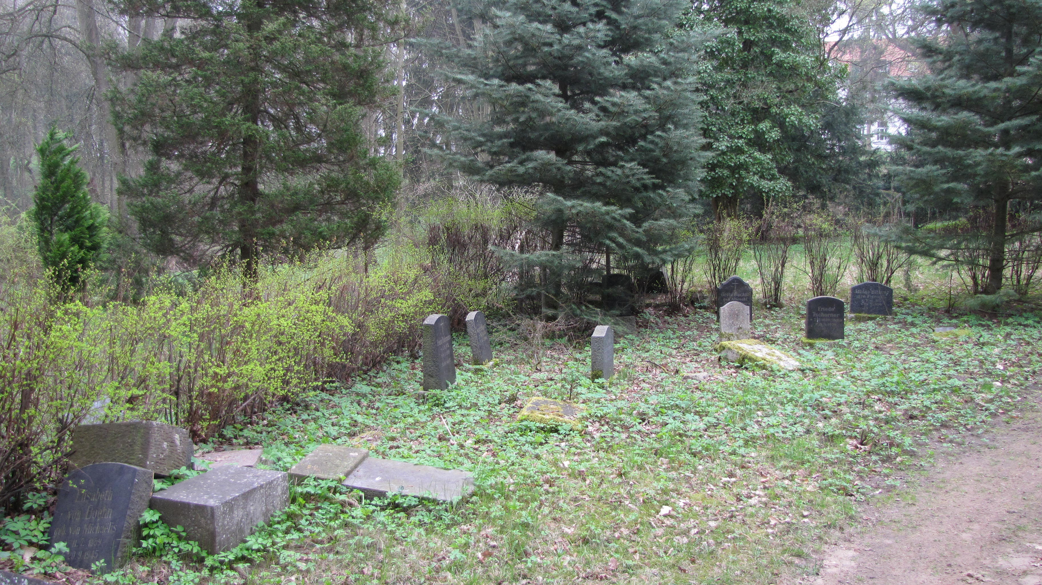 Sachsenberg (Schwerin)